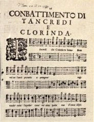 First page of Claudio Moneteverdi's madrigal Il combattimento di Tancredi e Clorinda nuoteista.